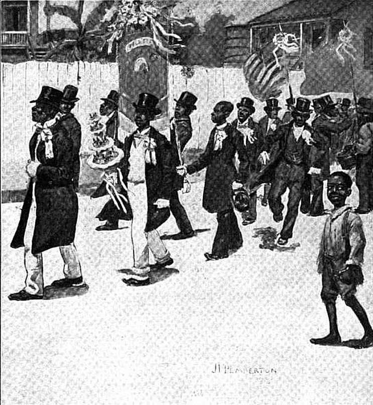 "Mardi Gras New Orleans. Title: Metropolitan Magazine, Volume 23. Publisher: Re-published by Peck and Newton, 1905." Note this is actually J. P. Pemberton's "Sons of Hope and the Annual Parade of the Young Veterans", 1902, depicting a Social Aid & Pleasure Club parade (now commonly called a "second line") in New Orleans; the original painting is in the Smithsonian.